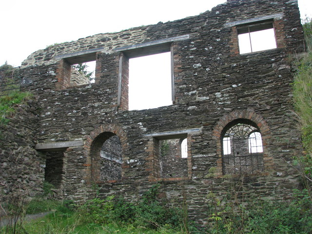 The winding house at the top of the incline on the West Somerset mineral line